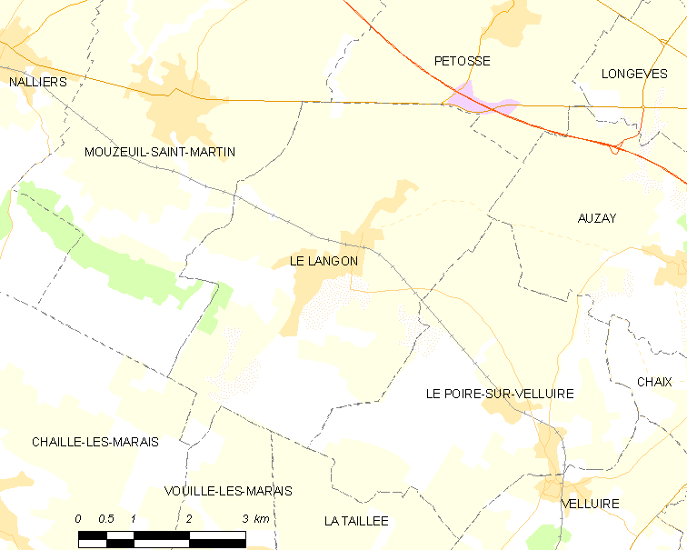 Map of French municipality Le Langon